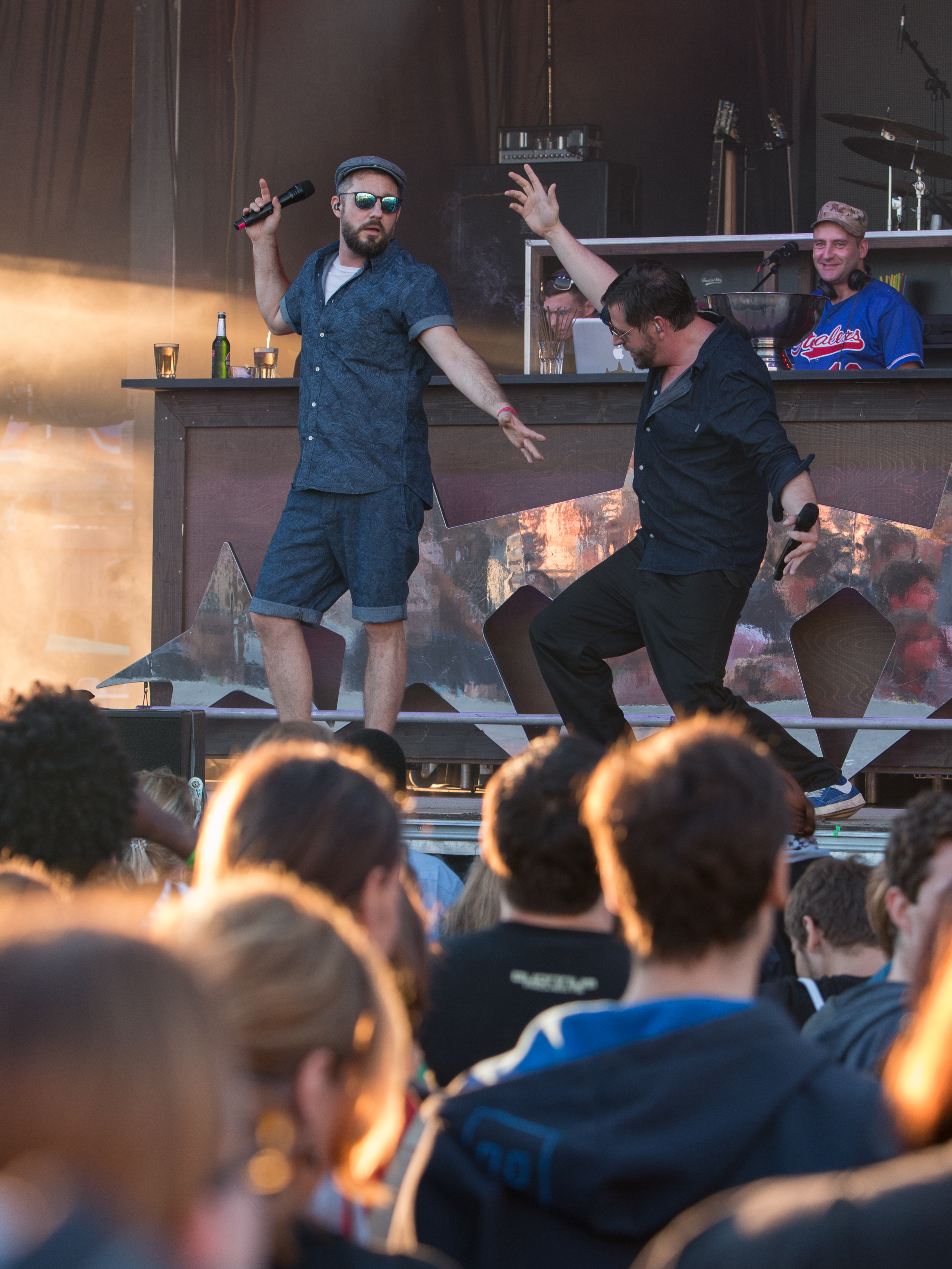 The Hip-Hop-Combo Fünf Sterne deluxe at the Folklore 015 festival at theSchlachthof in Wiesbaden